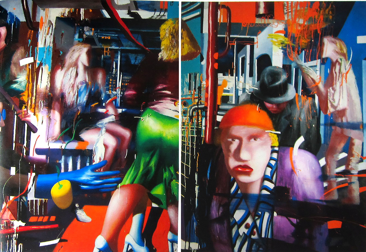 Evening motion